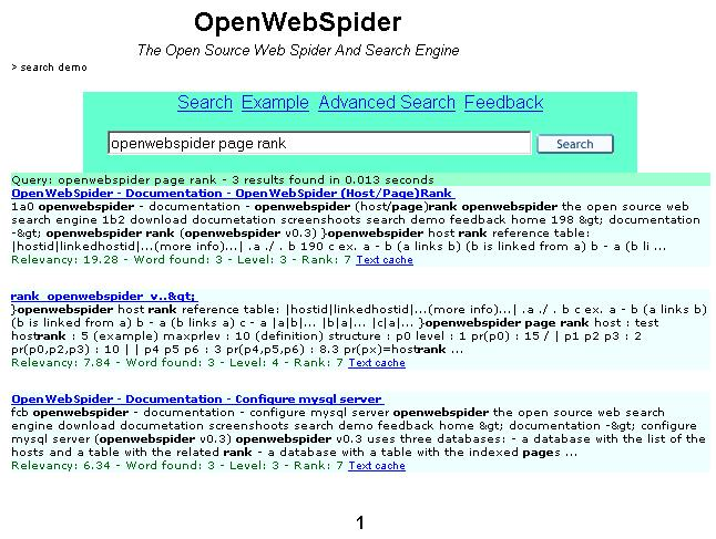 screenshot from a opensource search engine (openwebspider)